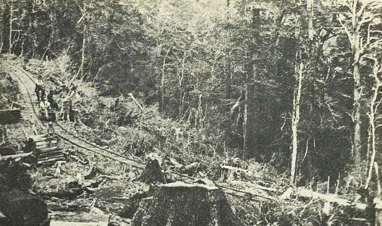 Dun Mountain railway in heavily wooded country. The track and wooden ties were still in an excellent state of preservation